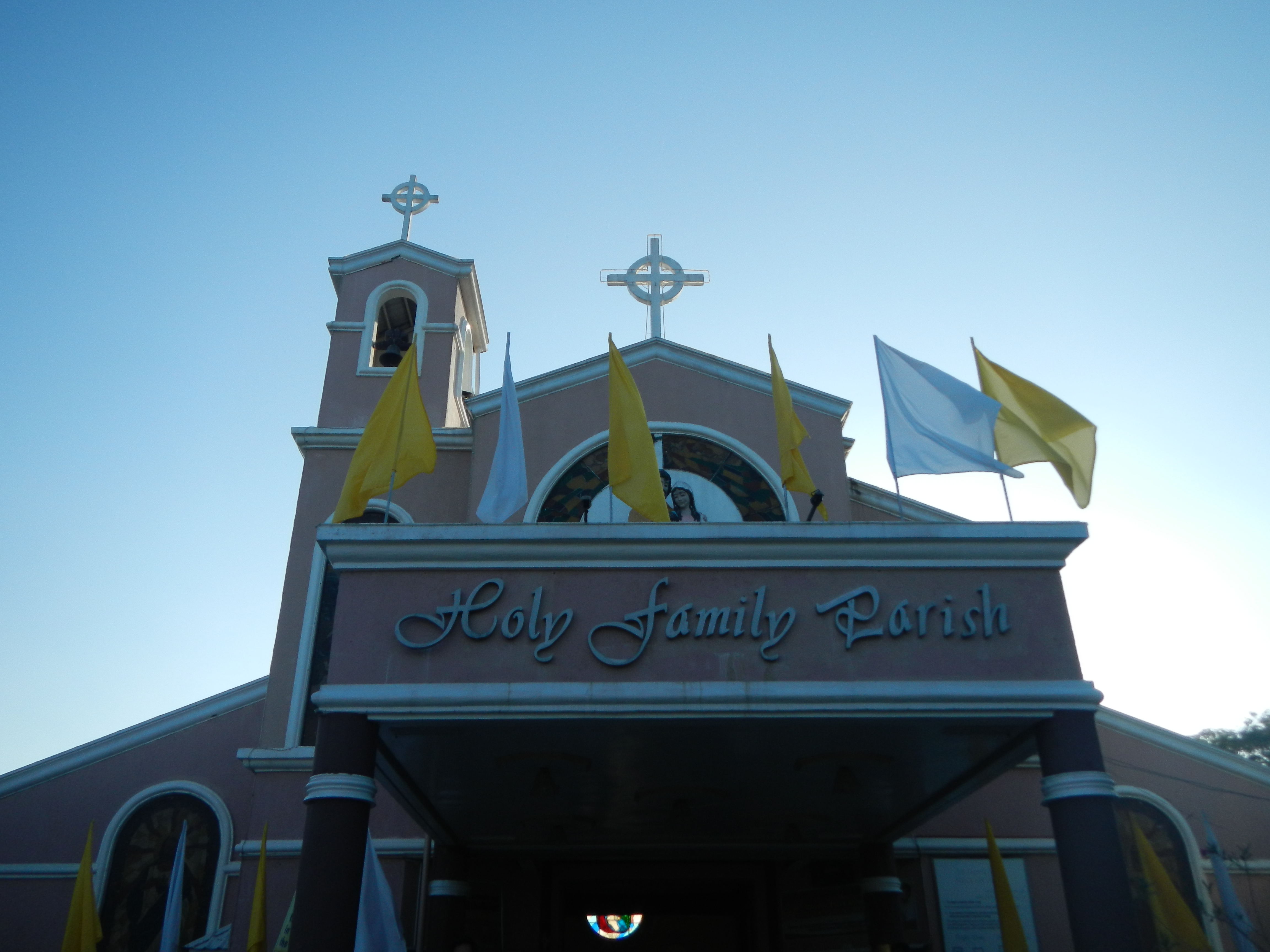 1929 Holy Family Parish, Quezon, Nueva Ecija Parish Priest: Fr. Bonifacio P. Flores, Roman Catholic Diocese of San Jose in the Philippines[1]Vicariate of St. Dominic[2]Population: 17,056 Catholics: 0.85% [3]Quezon, Nueva Ecija is a fourth class municipality in the province of Nueva Ecija, Philippines. According to the 2010 census, it has a population of 36,660 people.[4]